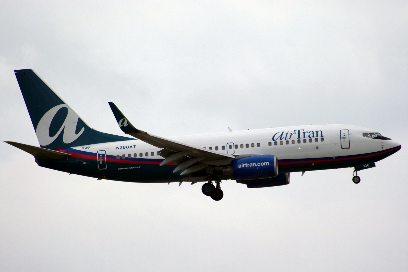 Boeing 737-7BD